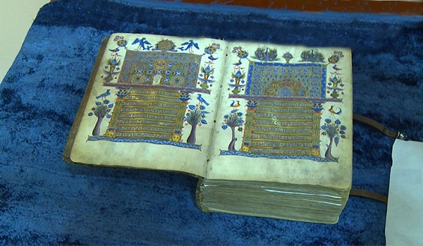 Zeytun Gospels 1256 AD, by Toros Rosilin at the Matendaran.